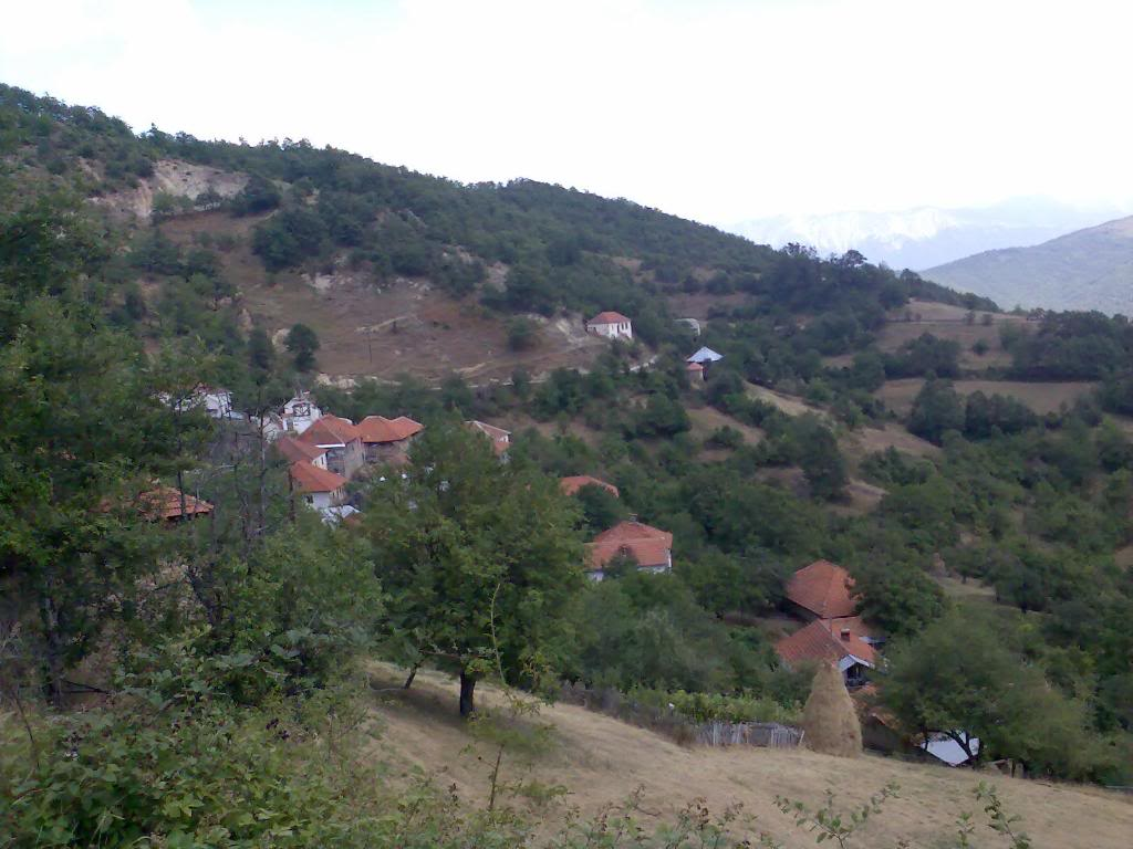 Village of Bitovo, Poreche region, Republic Macedonia